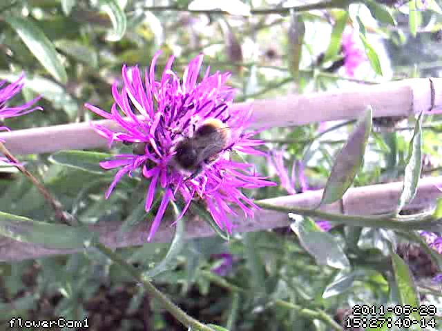 Showing a male Bombus lapidarius pollinating a flower of Knapweed (captured by the Rana motion sensitive vision system)